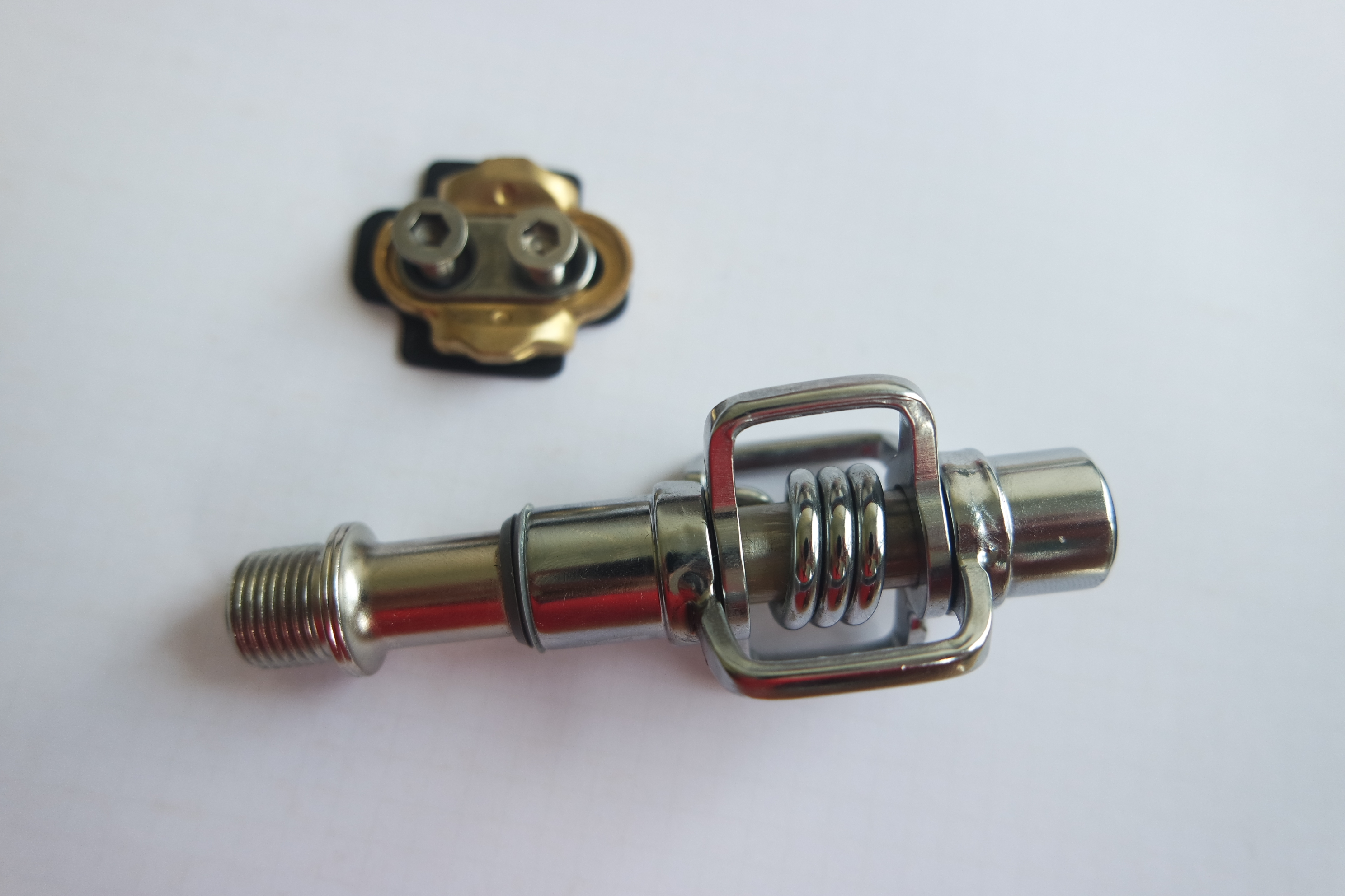 bicycle pedal eggbeater mxr from manufacturer crank brothers